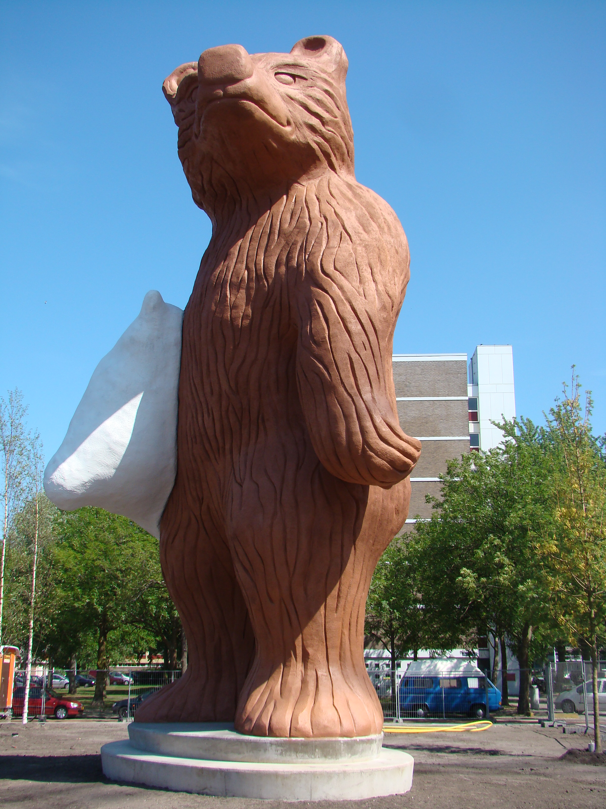 Slotervaart Teddybeer, Amsterdam